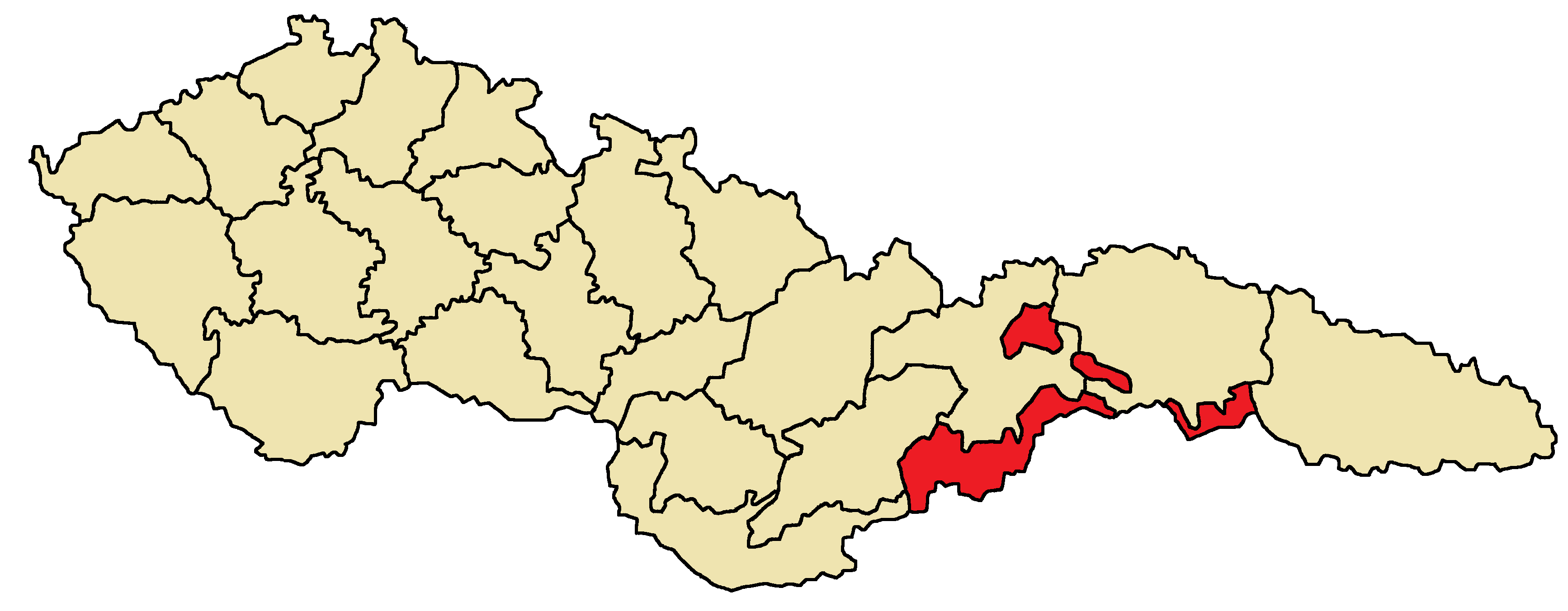 Electoral District used in 1925, 1929, 1935 elections for the Chamber of Deputies, Czechoslovakia